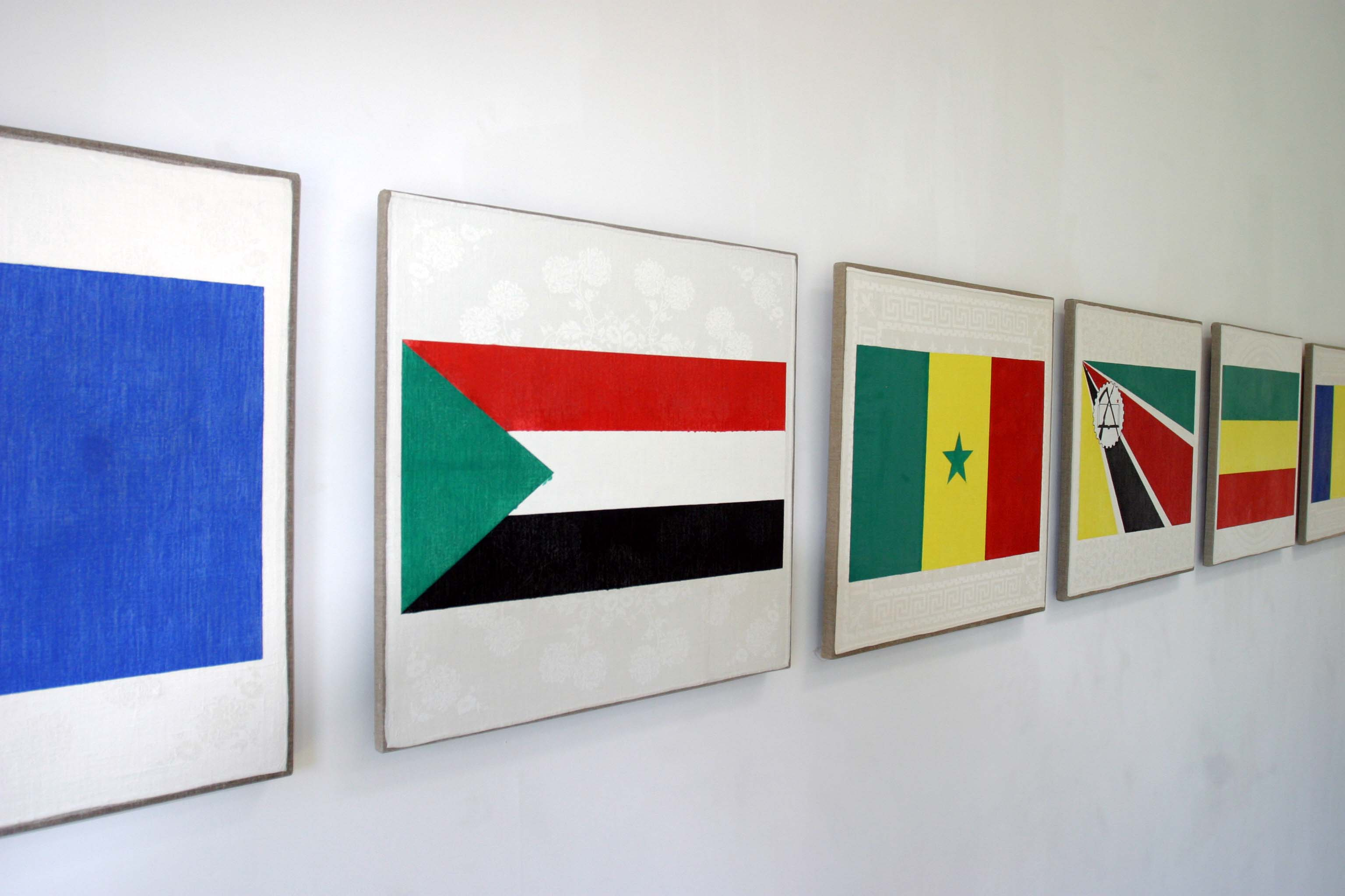 Photo of Famine by Gloria Graham, photo by Gloria Graham.